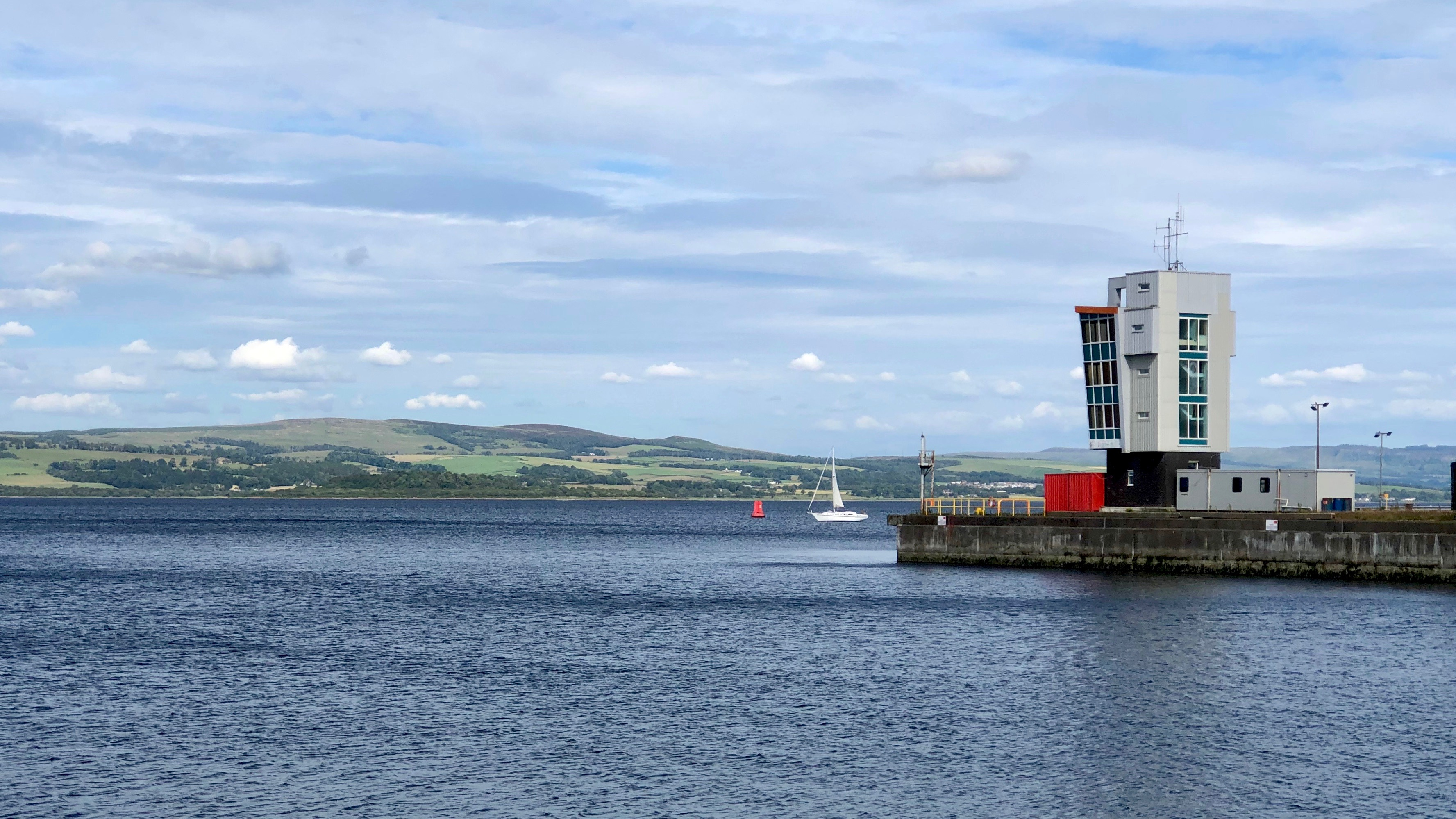 View past Princes Pier and the Greenock Ocean Terminal control tower, looking along the line of of the Tail of the Bank sandbank and shoal towards the heavily wooded mound of Ardmore Point peninsula on the north shore, west of Cardross. A yacht leaving the River Clyde navigable channel is about to pass in front of No. 2 red can light buoy, marking the Tail of the Bank, into the Firth of Clyde. The distance from the corner of the pier to the buoy is about 420n, and to Ardmore Point about 4km.